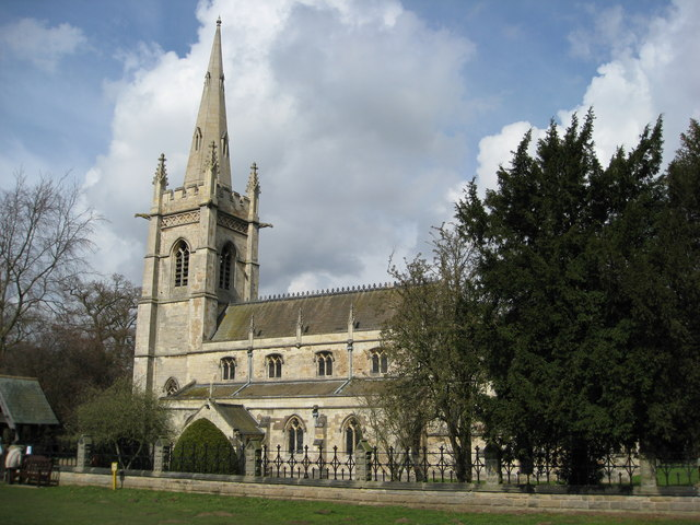 Perlethorpe - Church View